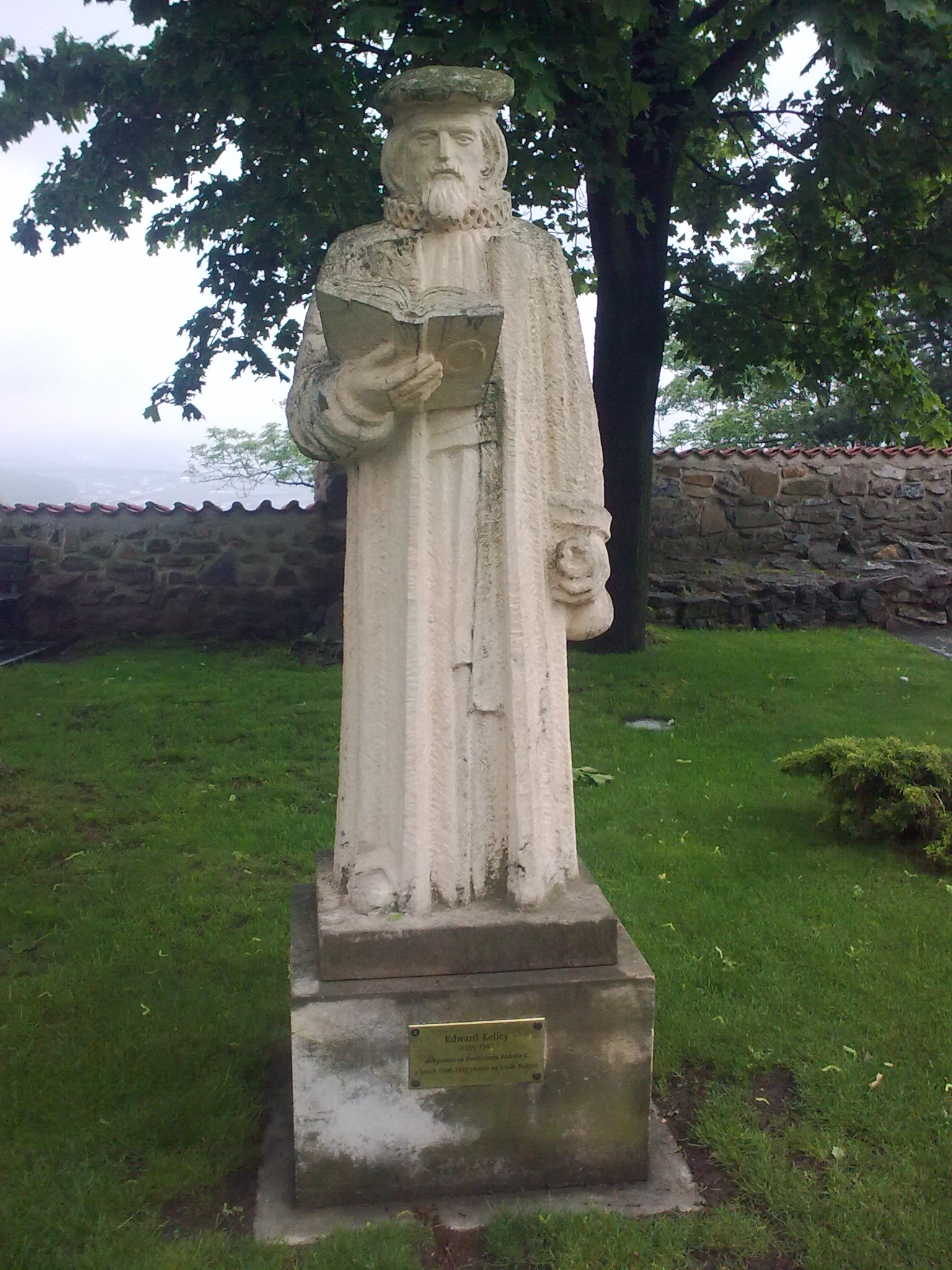 Statue of Edward Kelley in Castle Hněvín